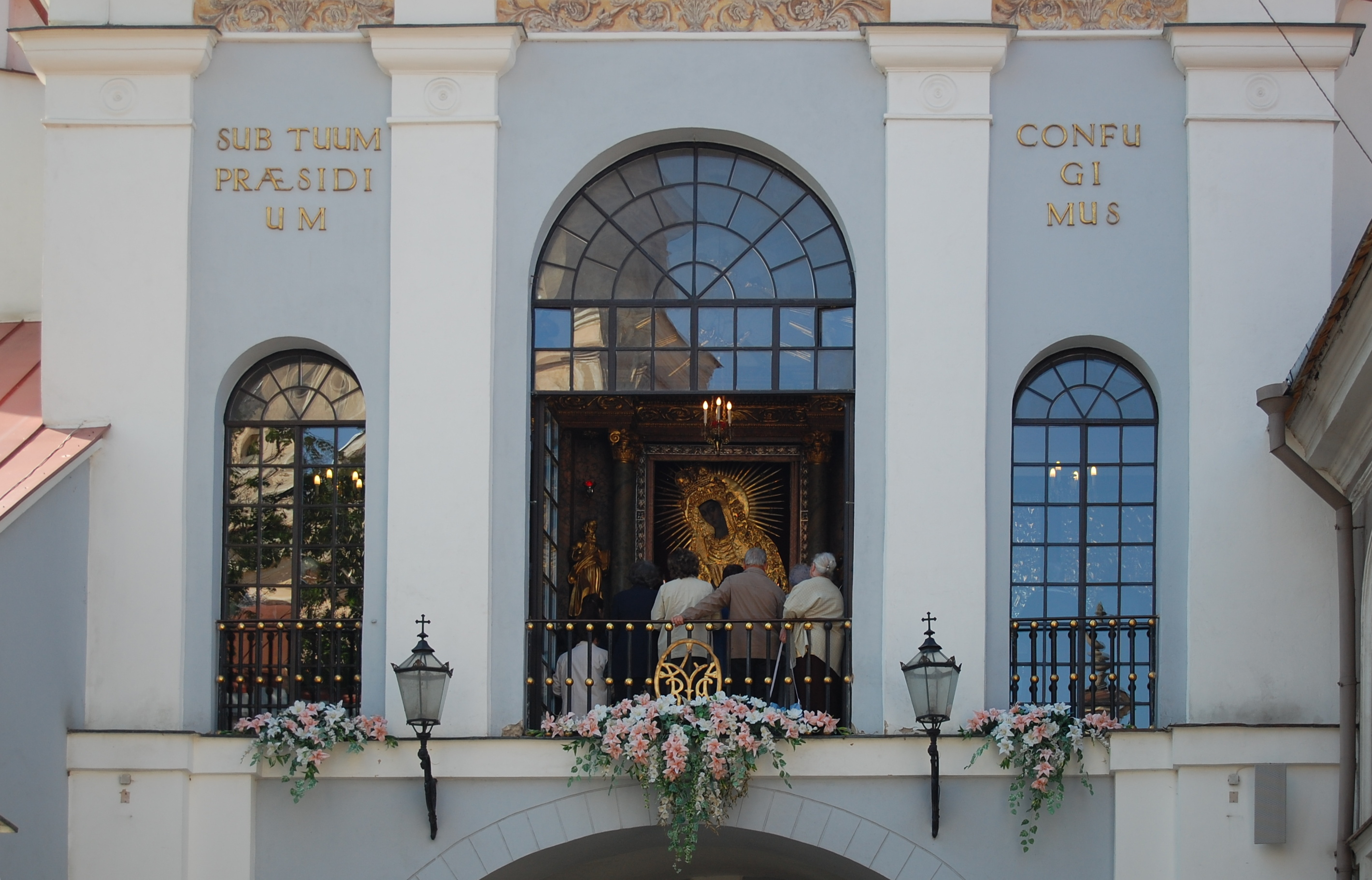 Dawn Gate , Vilnius, Lithuania.